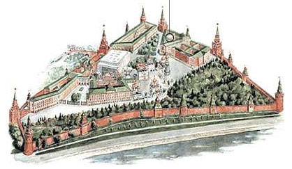 Overview map of the Moscow Kremlin. Location of The Senate marked.